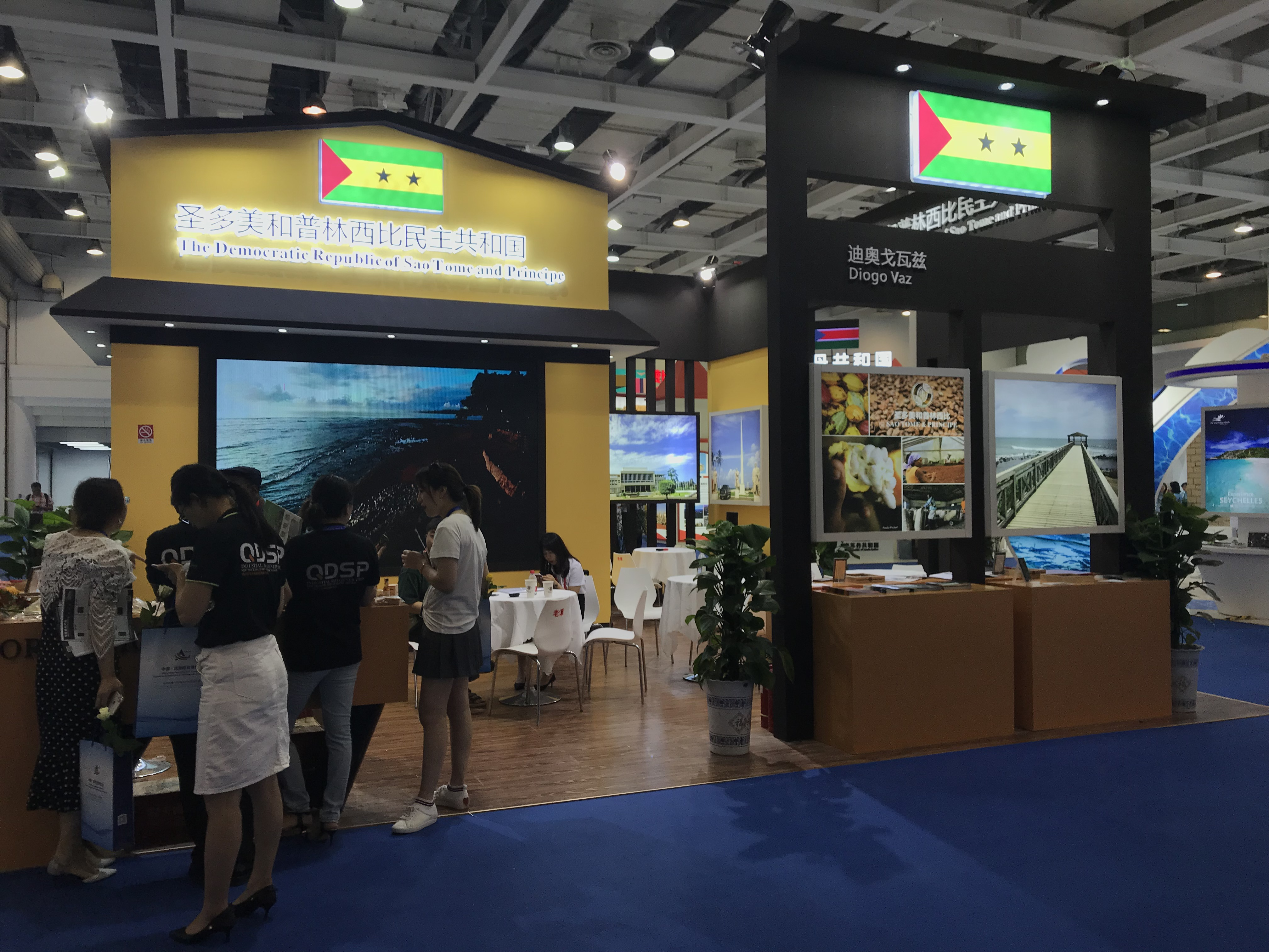 201906 Pavillion of São Tomé and Príncipe in CAETE